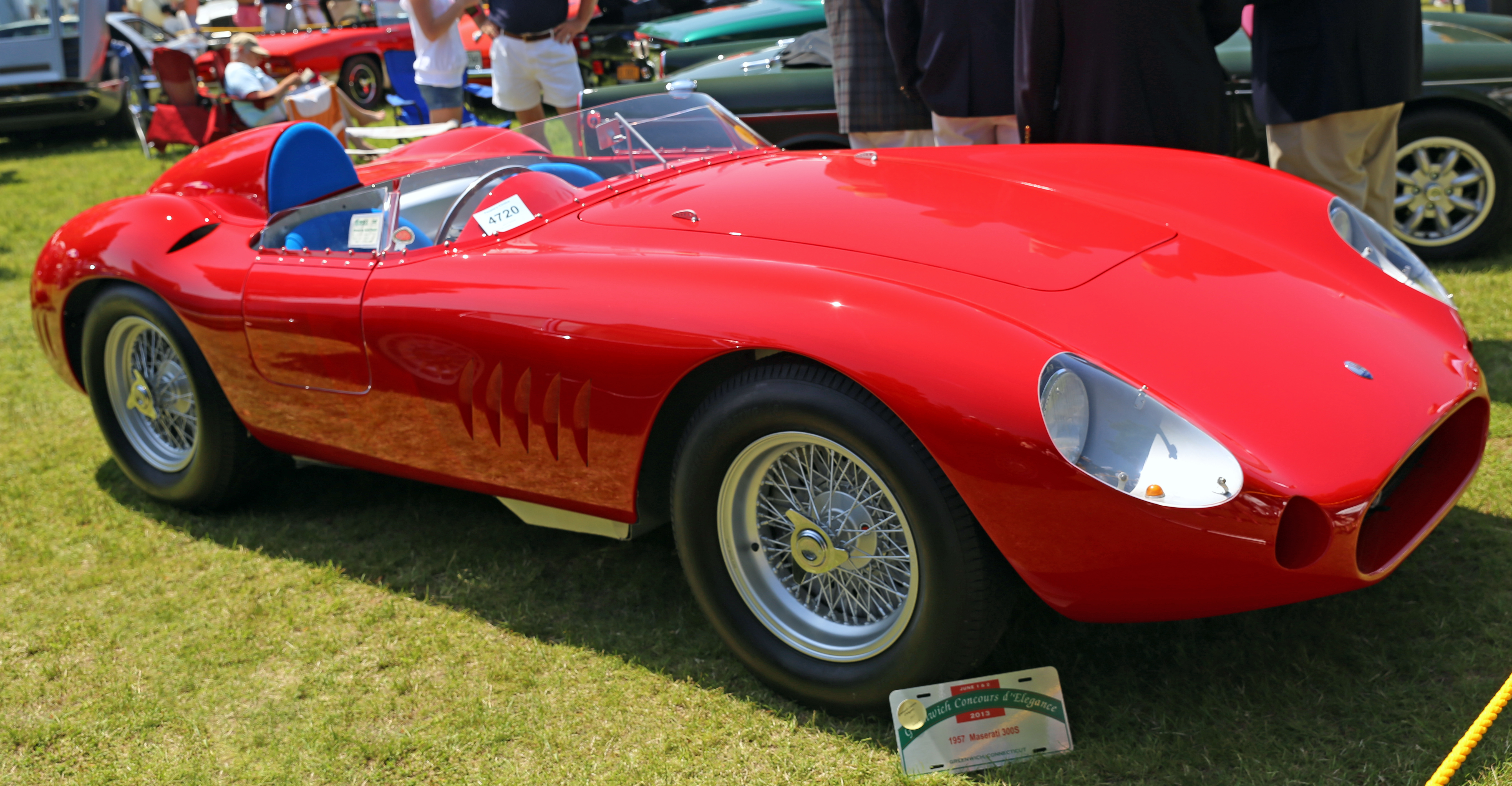 1957 Maserati 300S at the 2013 Greenwich Concours d'Elegance.